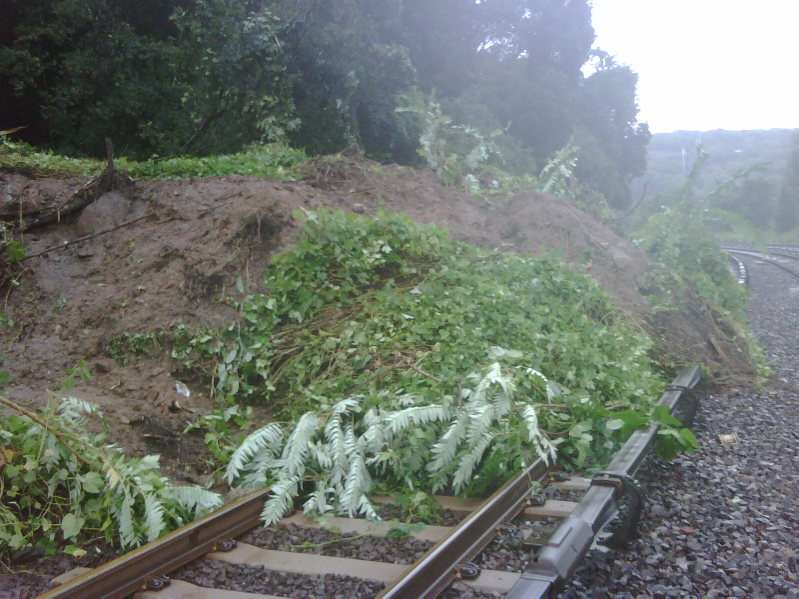 Hurricane Irene: Crews found a mudslide at Glenwood on the Hudson Line. Photo by Metropolitan Transportation Authority.